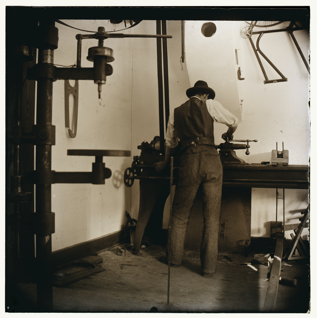 "Wilbur Wright Working in the Bicycle Shop", around 1897